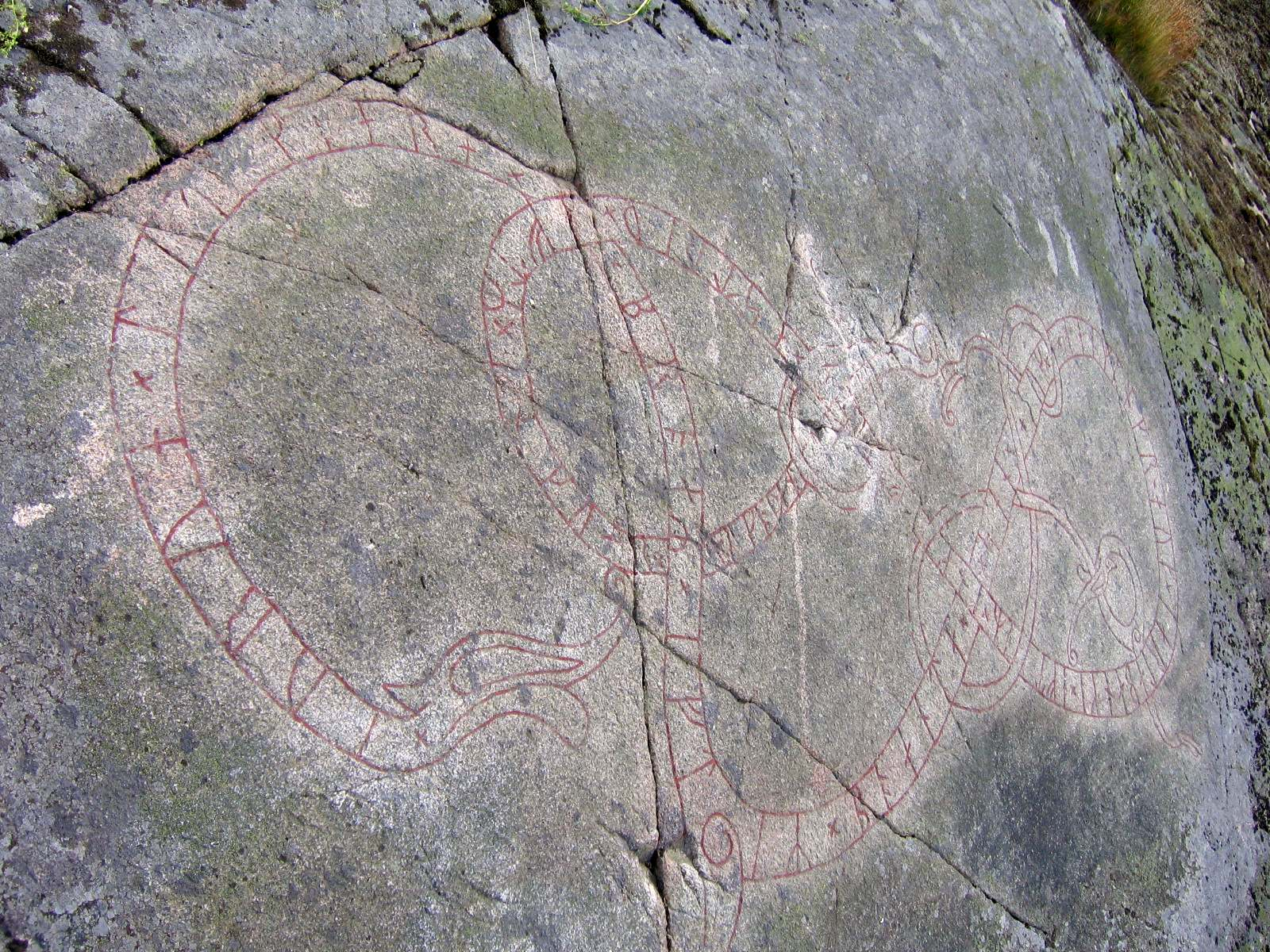 Runestone U 143 in Hagby, Täby.